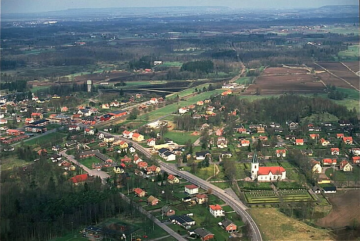 Åsarp locality and parish in Falköpings municipality in Västragötaland county, Sverige